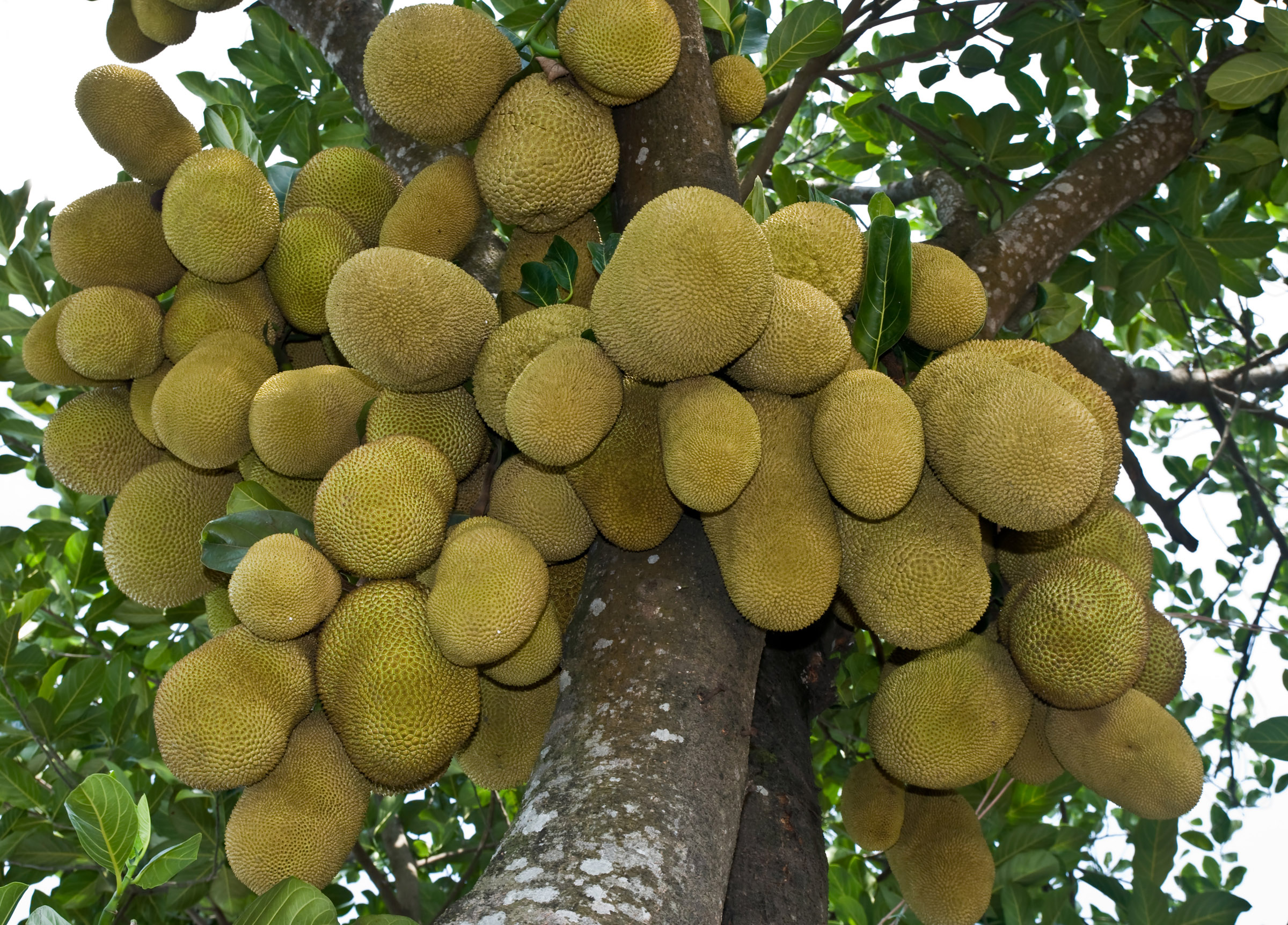 Jackfruit, the National fruit of Bangladesh.